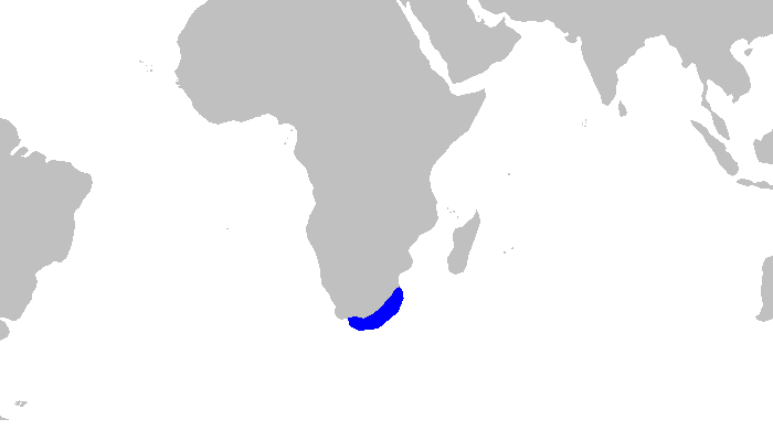 Distribution map for Haploblepharus fuscus, based on IUCN